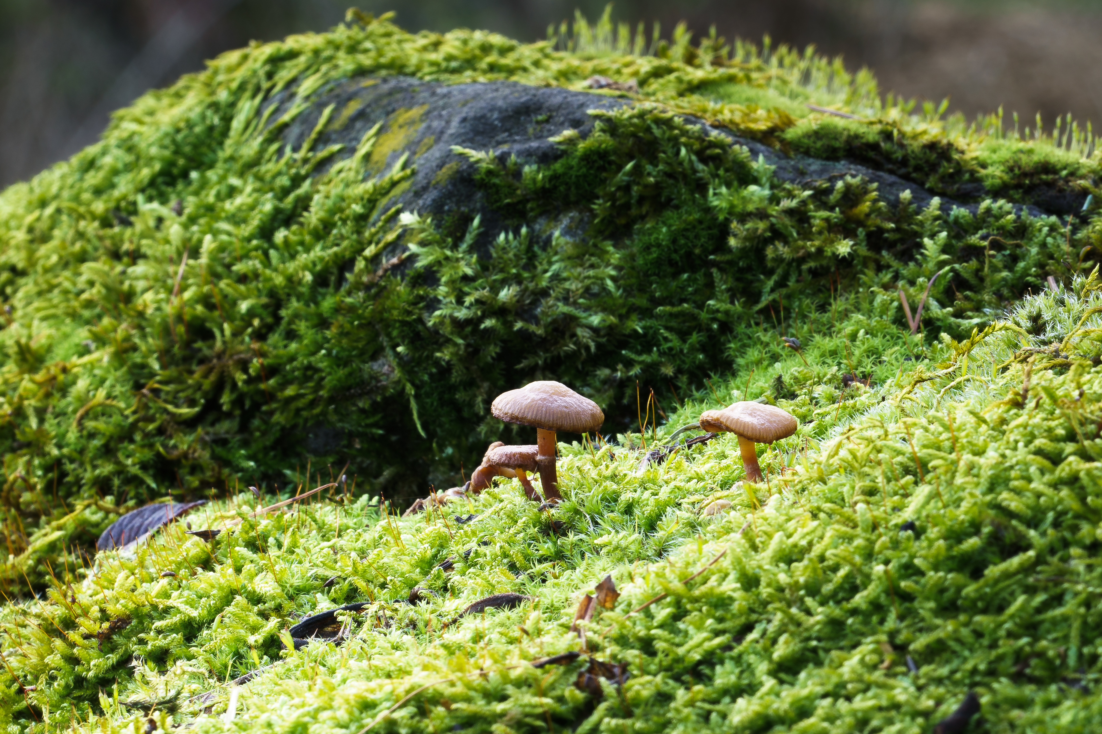 Mushrooms on moss on a basalt rock - identification ambiguous: Sheathed woodtuft Kuehneromyces mutabilis (edible) oder Galerina marginata (toxic) / Vogelsberg Mountains